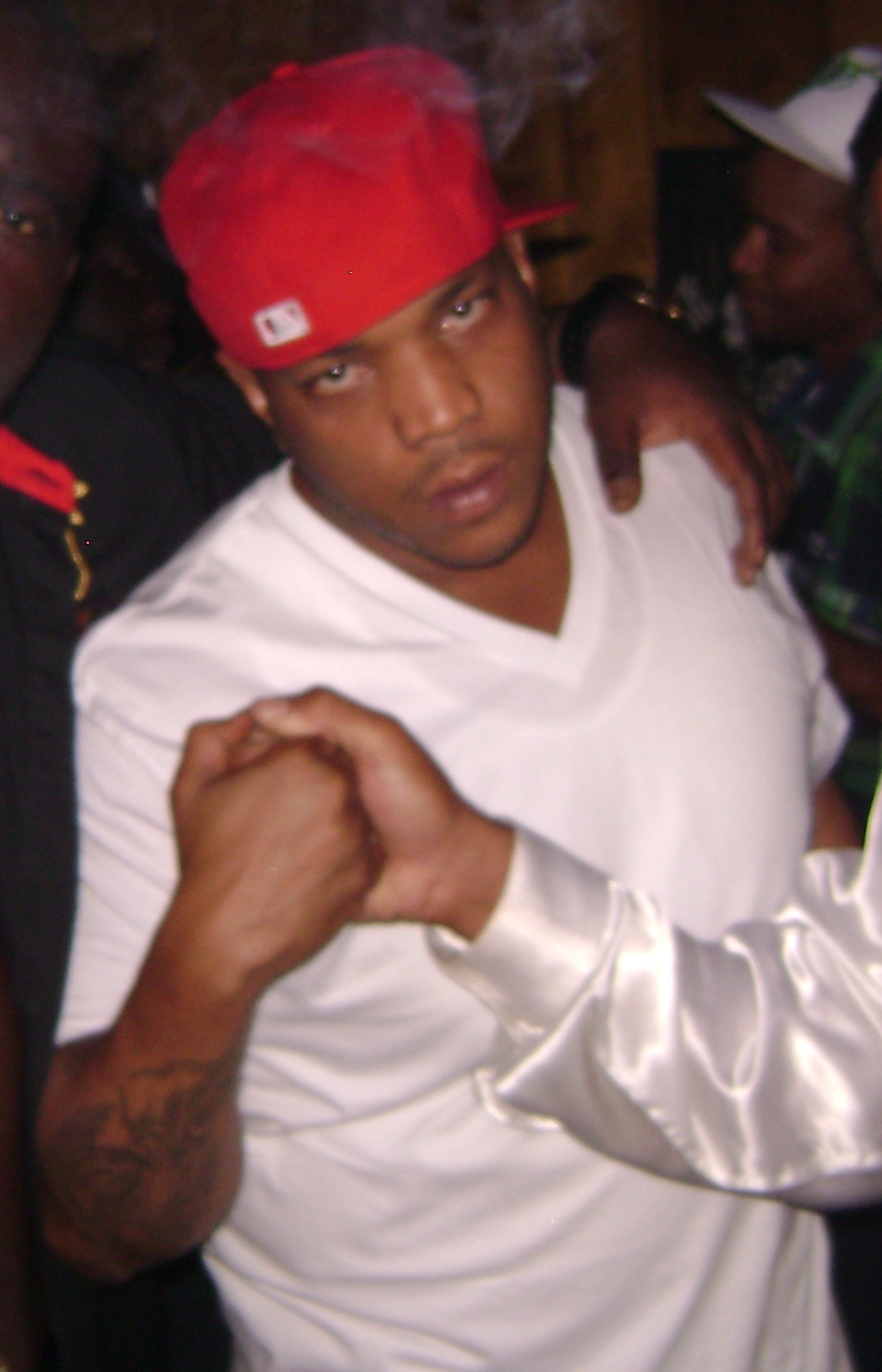 Picture of Pgeezy, Styles P, and Natalac